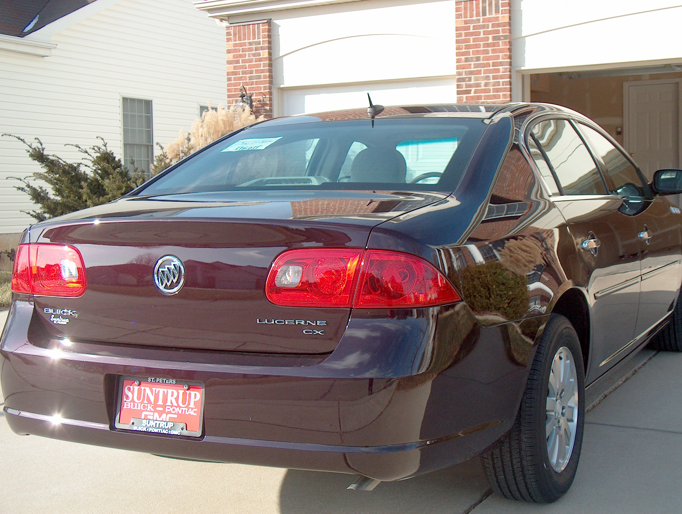 The first out of 36 pictures I took during the winter sunshine of our 2008 Buick Lucerne.